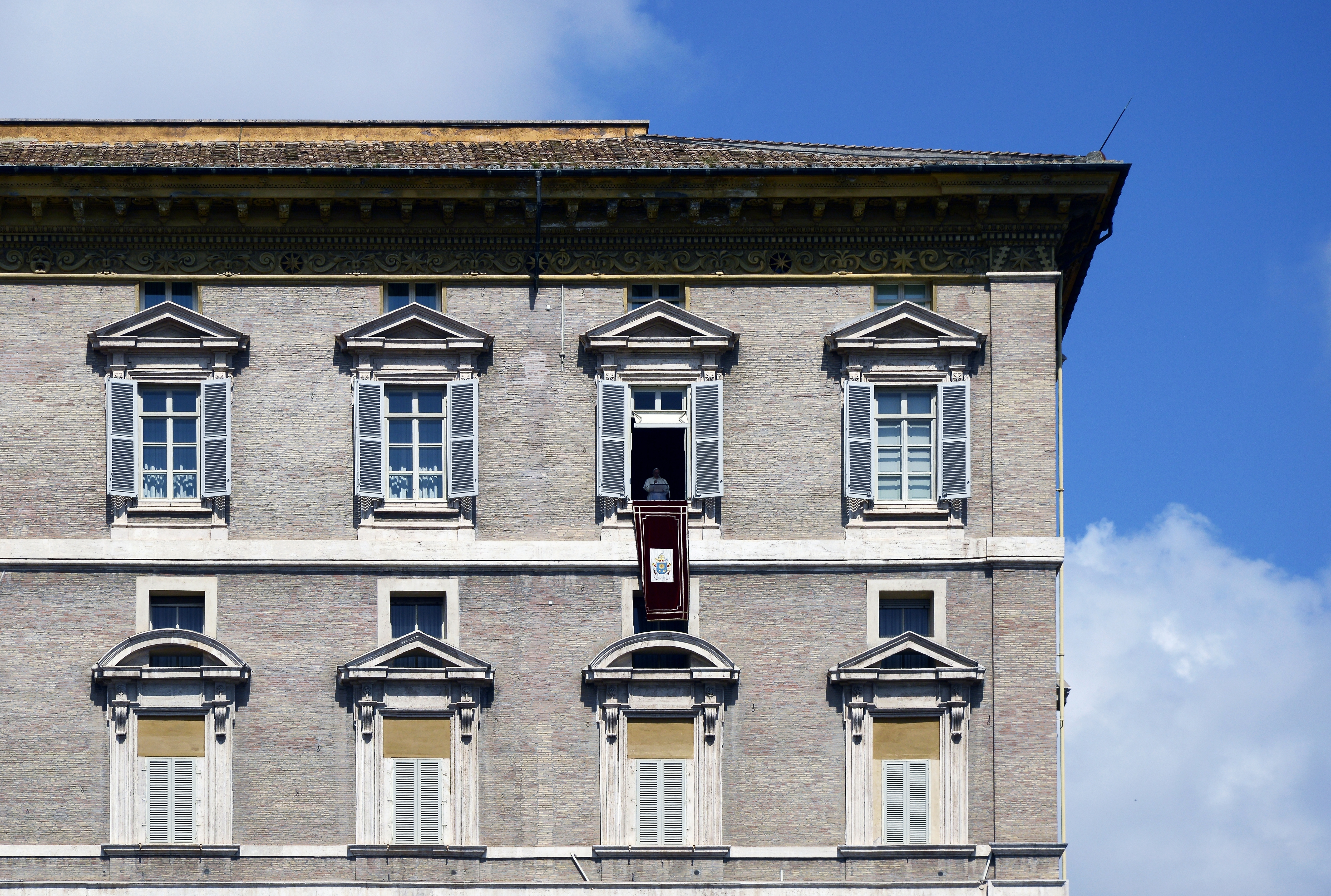 The pope at the windows in St. Peter